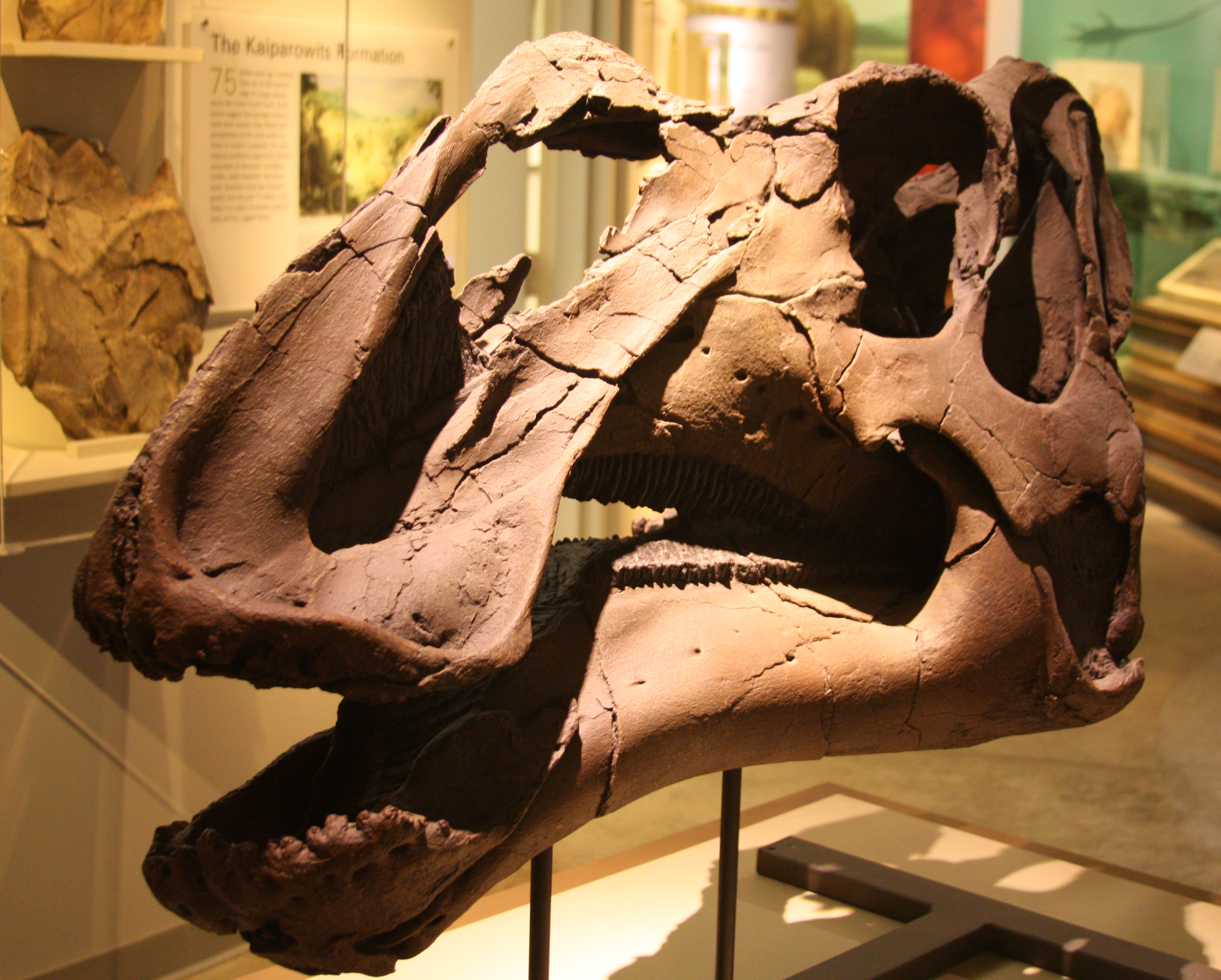 This photo shows the Gryposaurus Monumentsis Skull at the Raymond M. Alf Museum of Paleontology, Claremont, CA.